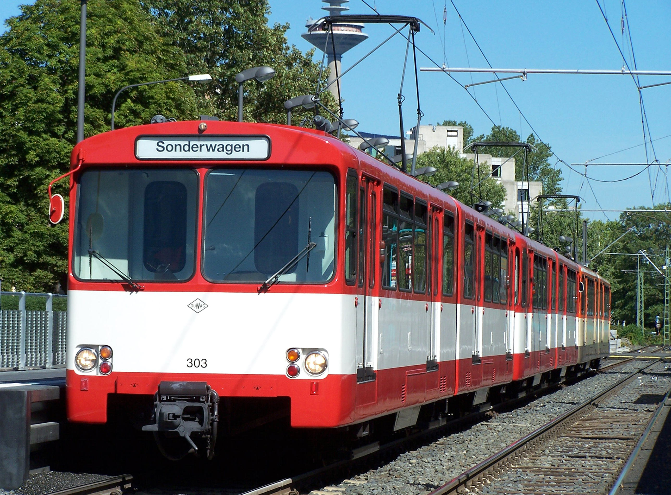 Subway at Frankfurt am Main: Siemens–Duewag U2 railcars 303+304+361 der VGF restored to the state of the 1960s in Frankfurt on Main at the stop Fischstein